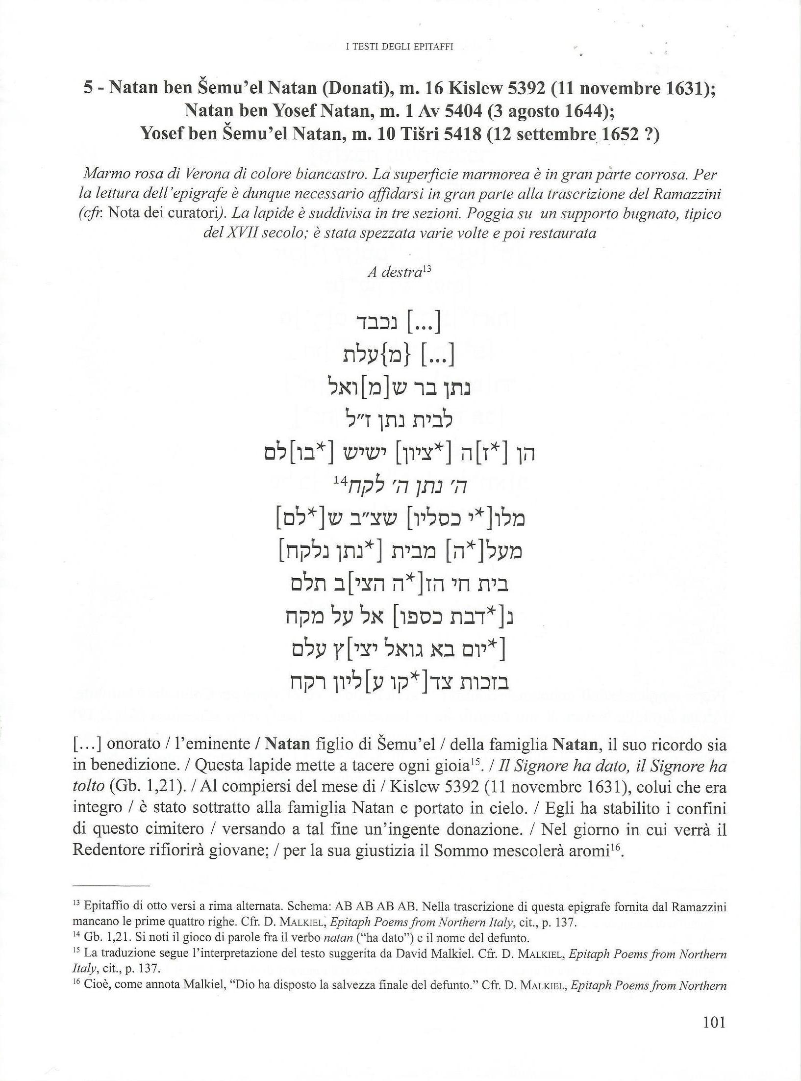 Text of the epigraph on Donato Donati's gravestone in Finale Emilia Jewish cemetery